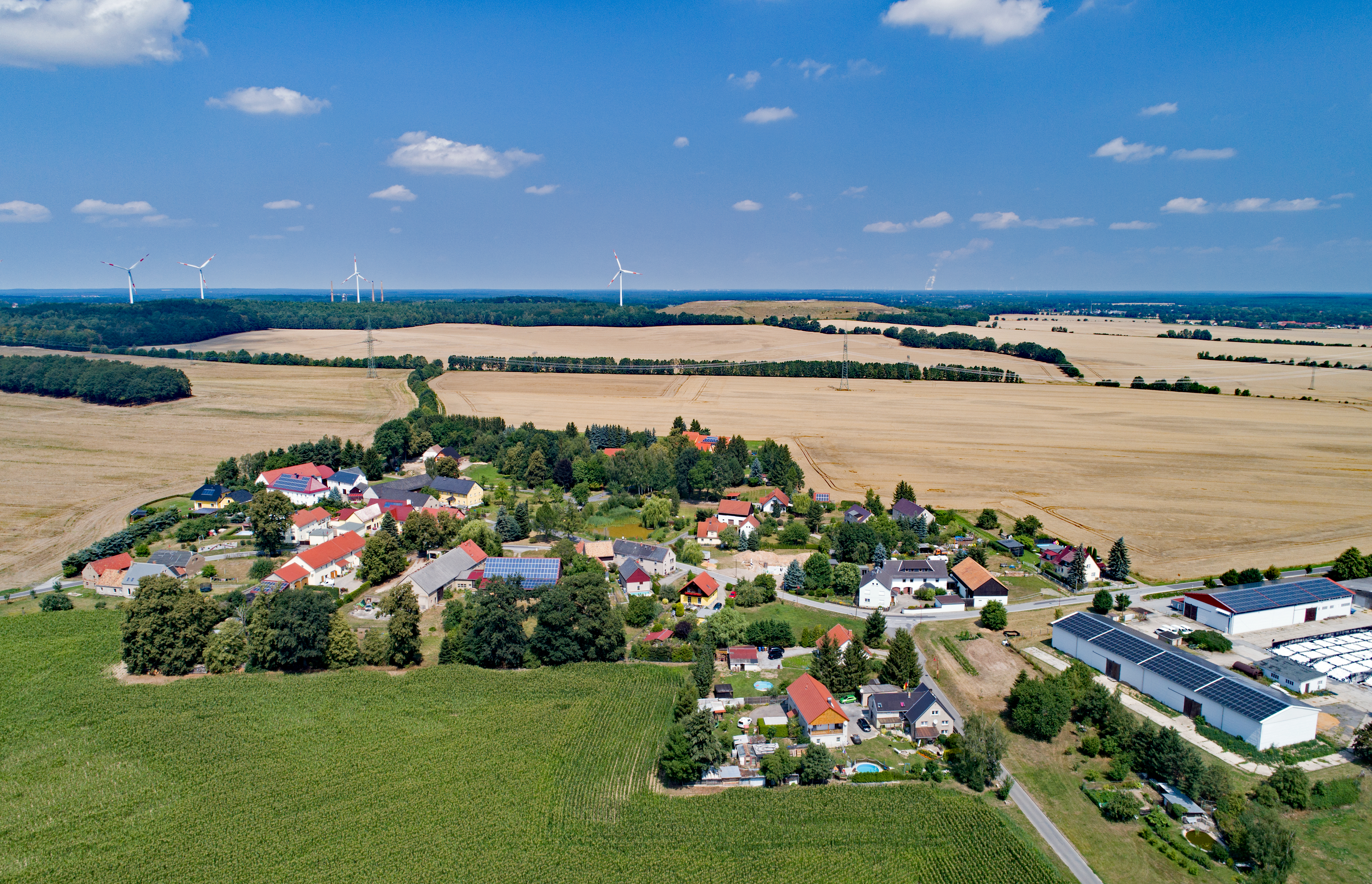 Pannewitz (Neschwitz, Saxony, Germany) Hornjoserbsce: Powětrowy wobraz Banec